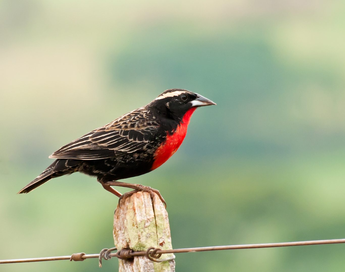 A White-browed Blackbird in Fazenda Campo de Ouro, Piraju, São Paulo, Brazil.